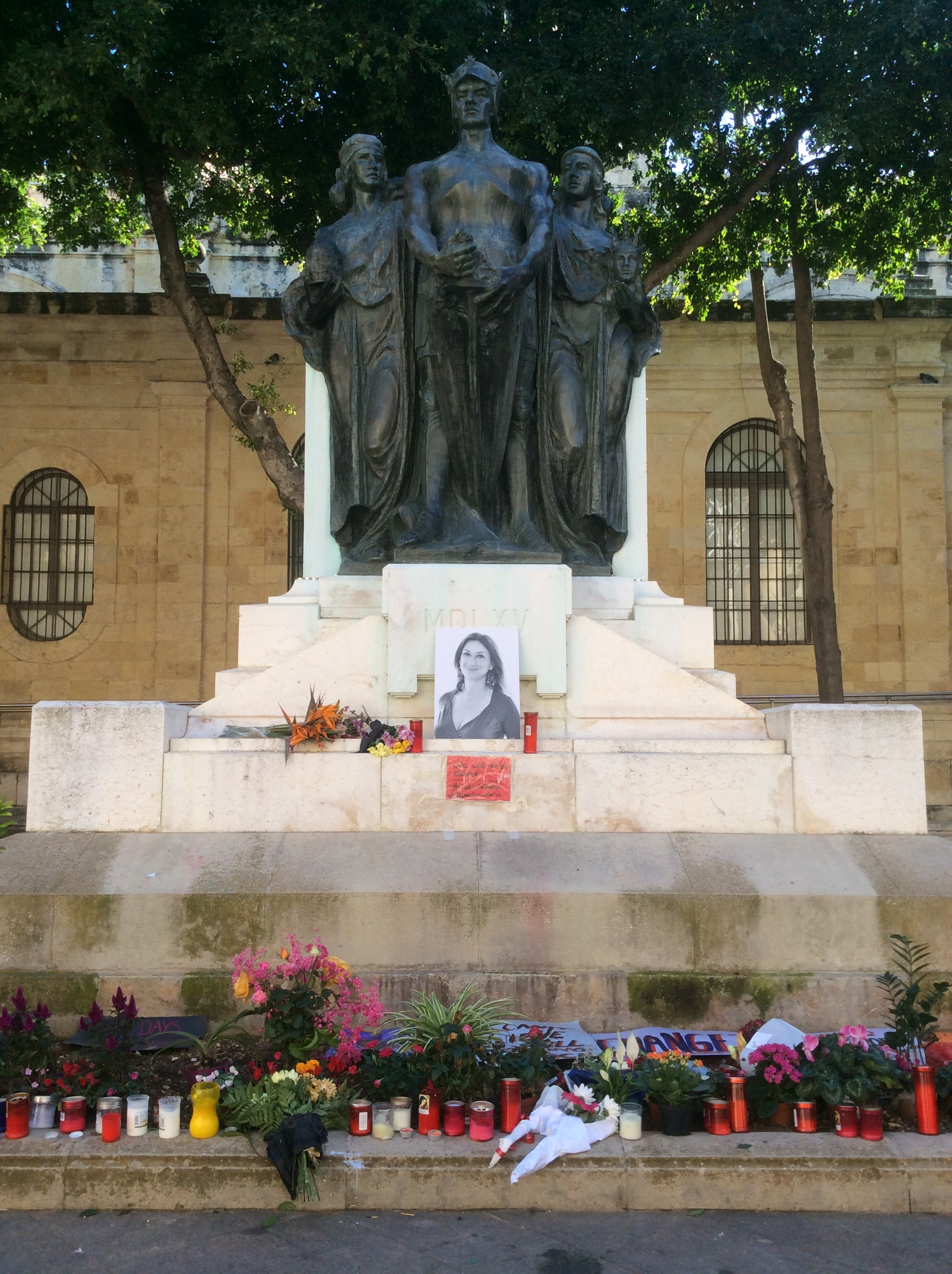 Great Siege Monument and temporal Daphne Caruana Galizia Monument